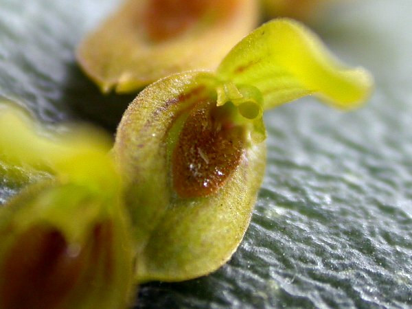 Photos by Americo Docha Neto & Dalton Holland Baptista For Orchidstudium